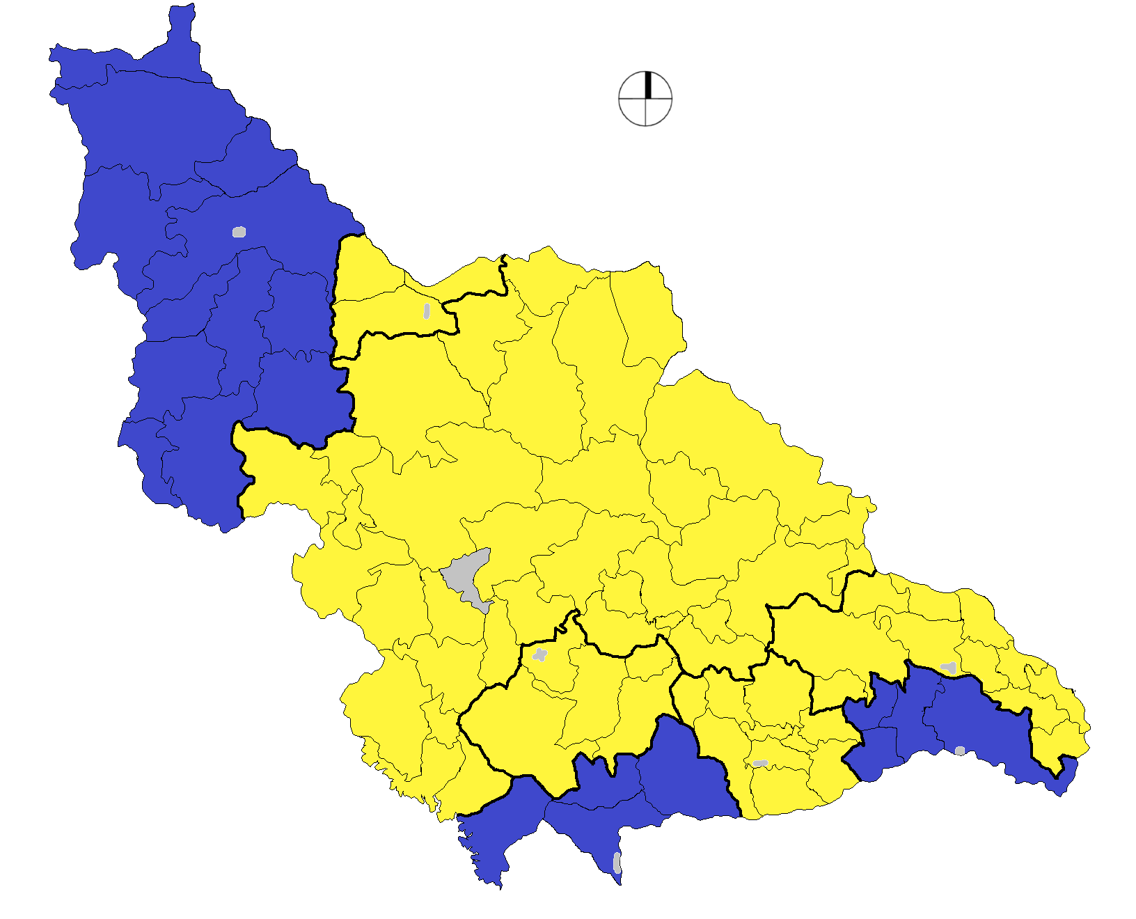 ELECTORAL 2015 Santa Rosa de Osos